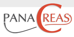 Logo of the PANACREAS project